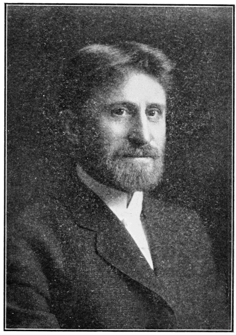 Louis Agricola Bauer at age 45.